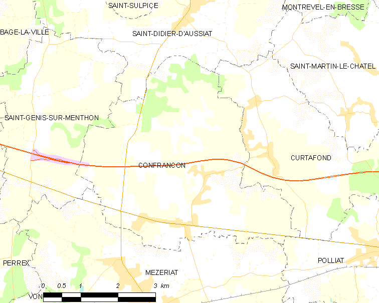 Map of French commune: Confrançon Map commune FR insee code 01115.png